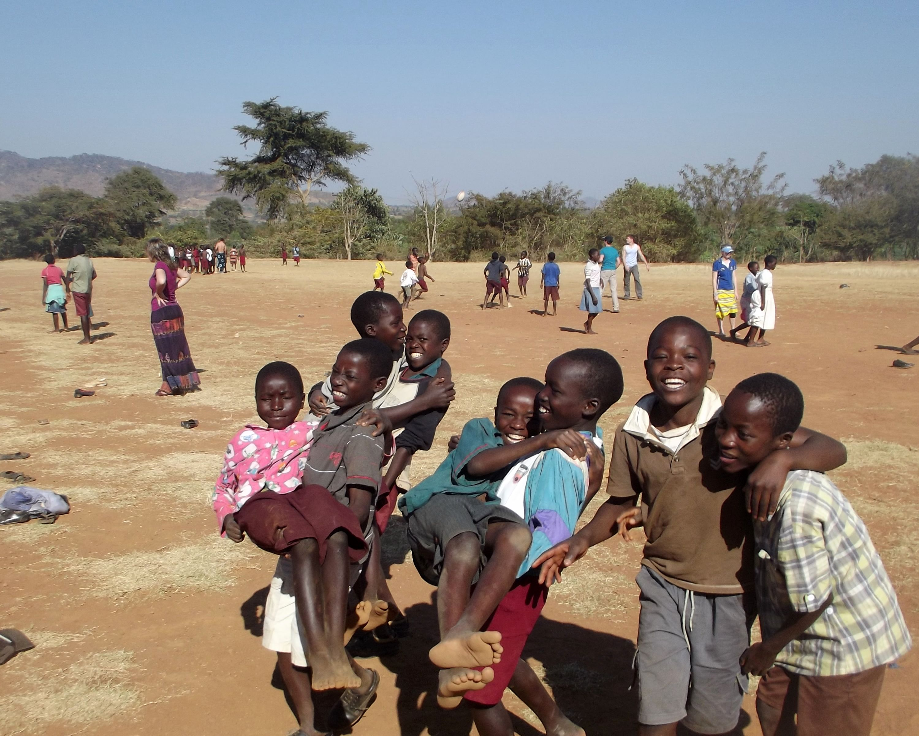 This is an image with the theme "Play" from: Malawi